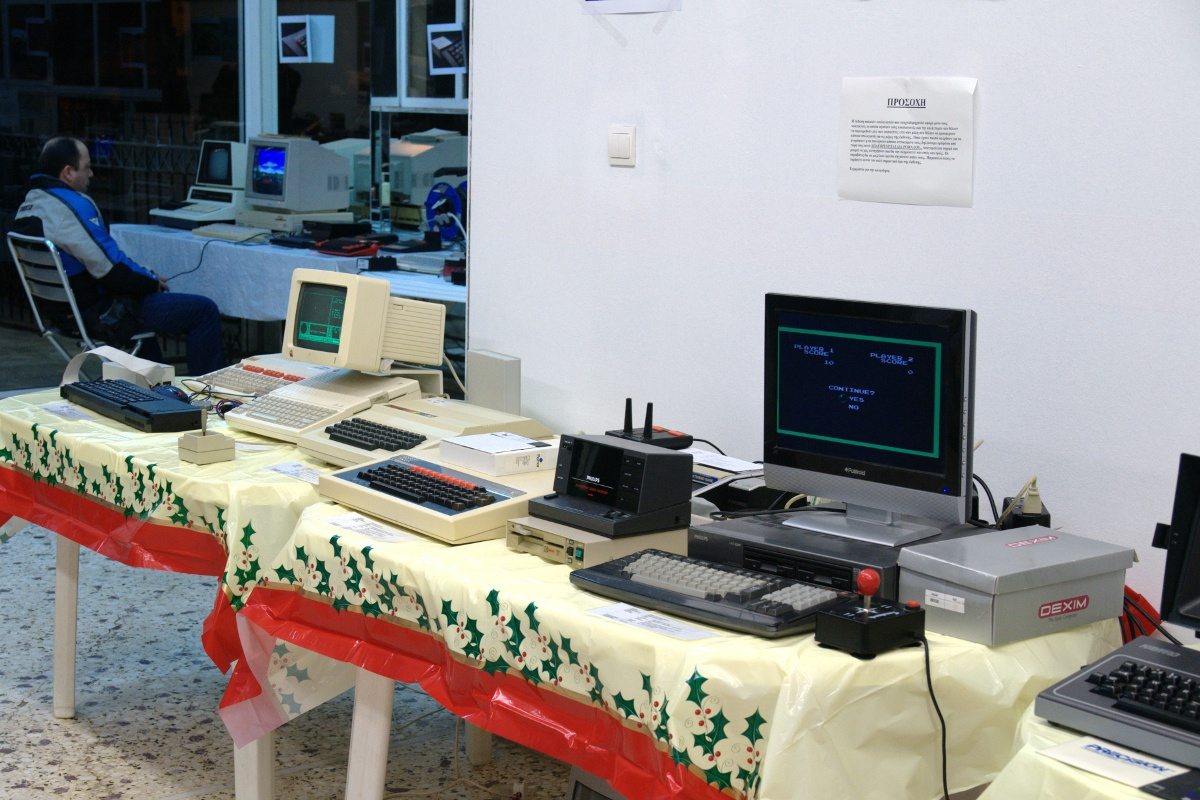 The Computer Section Tags: apple exhibit acorn dragon32 retrocomputing oldcomputers bbcmodelb applec acornbbcmodelb philipsnms8220 silogomaniacom collectingcomputers retrosystem2010 Retrosystems 2010 This retro-computing (and gaming) exhibit on the 4th and 5th of December, 2010, was organised by a forum of collectors, and displayed a number of the Classics.